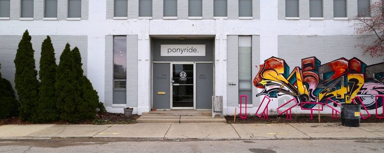 Front entrance to Ponyride